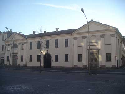 Ex Como Seminary, by Simone Cantoni.